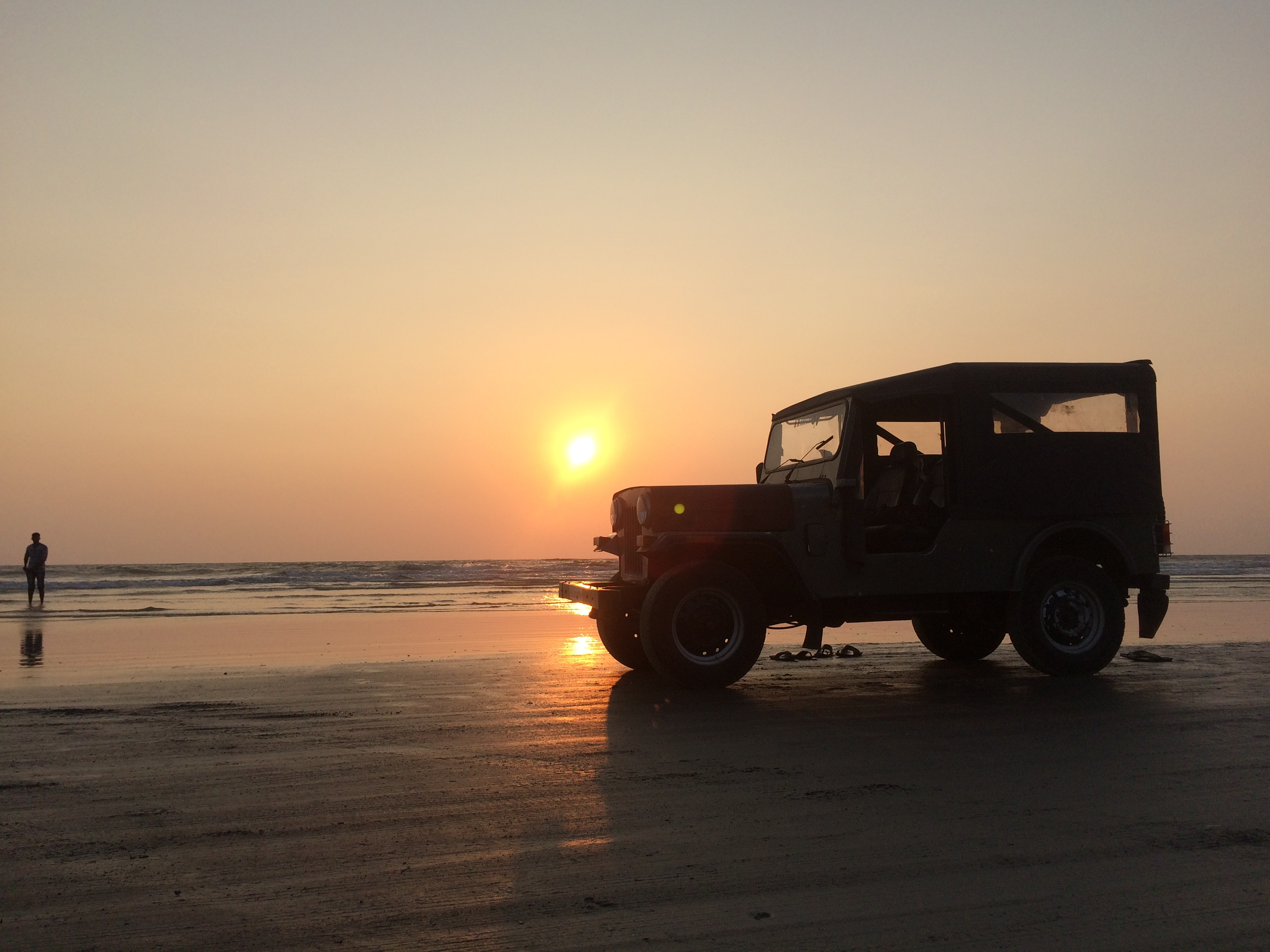 This jeep has been photographed in muzhappilangad beach..